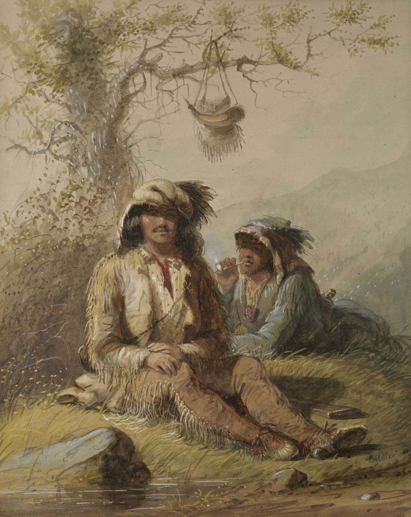 Miller was the only painter to portray during their heyday the men who "may be said to lead the van in the march of civilization,- from the Canadas in the North to California in the South;- from the Mississippi East to the Pacific West; every river and mountain stream, in all probability, have [sic] been at one time or another visited and inspected by them." Perhaps they numbered no more than a thousand, but their impact was incalculable. Here Miller has pictured two of that company, one of them probably Black Harris.